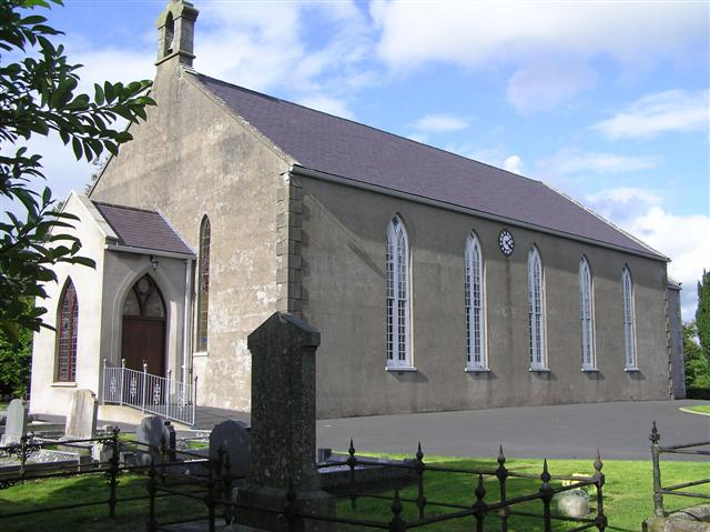 Upper Clonaneese Presbyterian Church. The Church is in the Townland Of Lisferty